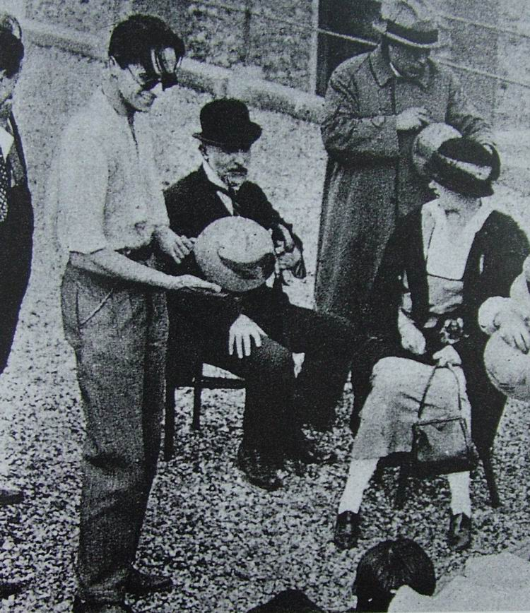 Regisseur René Clair & Composer Erik Satie, film Relache, november 1924